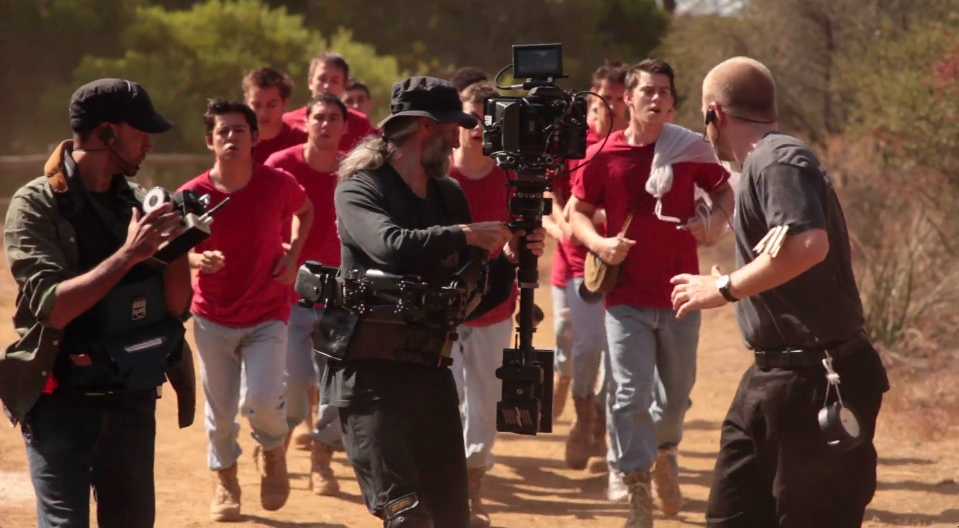 CWcrewactors